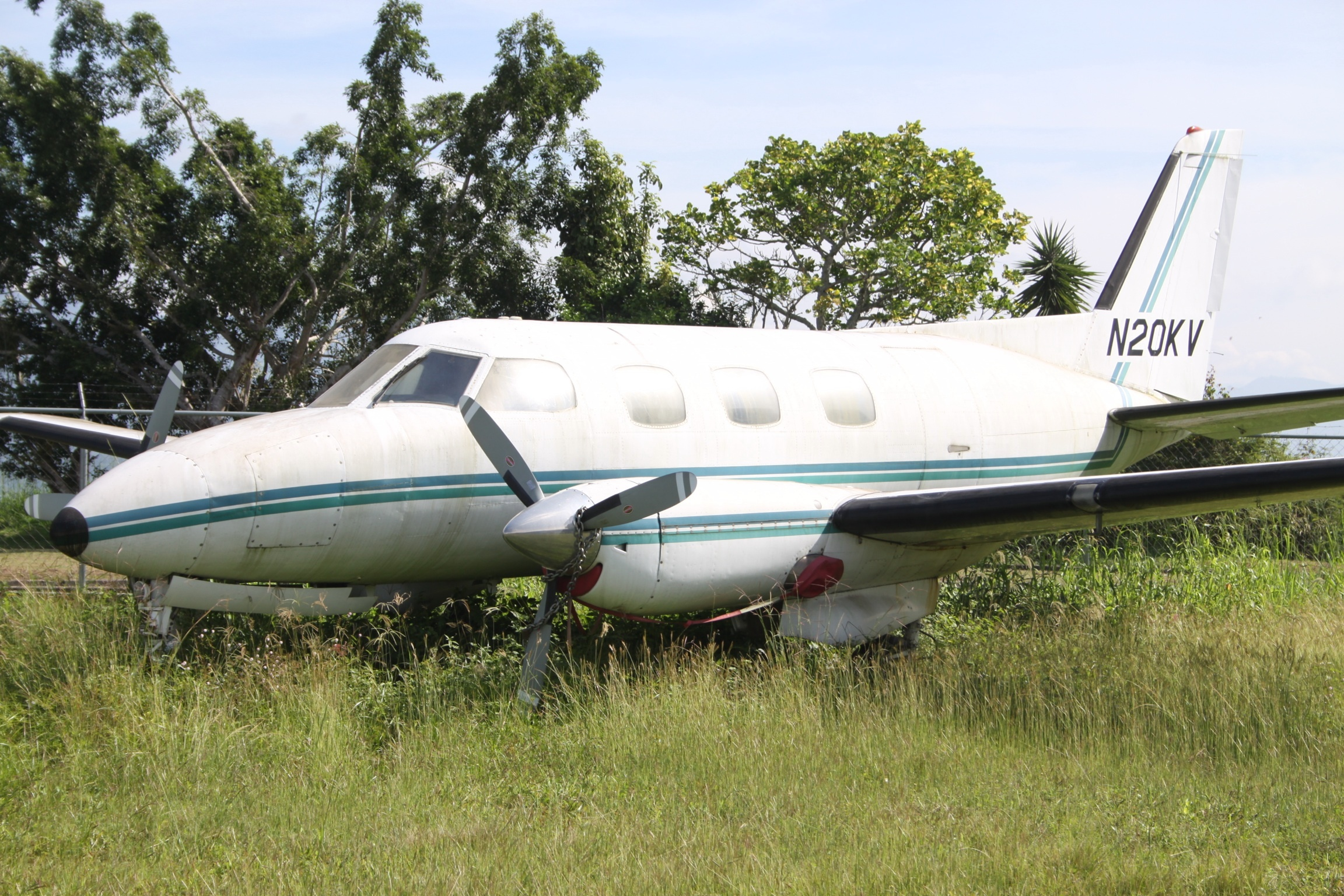 At Charallave Aeropuerto